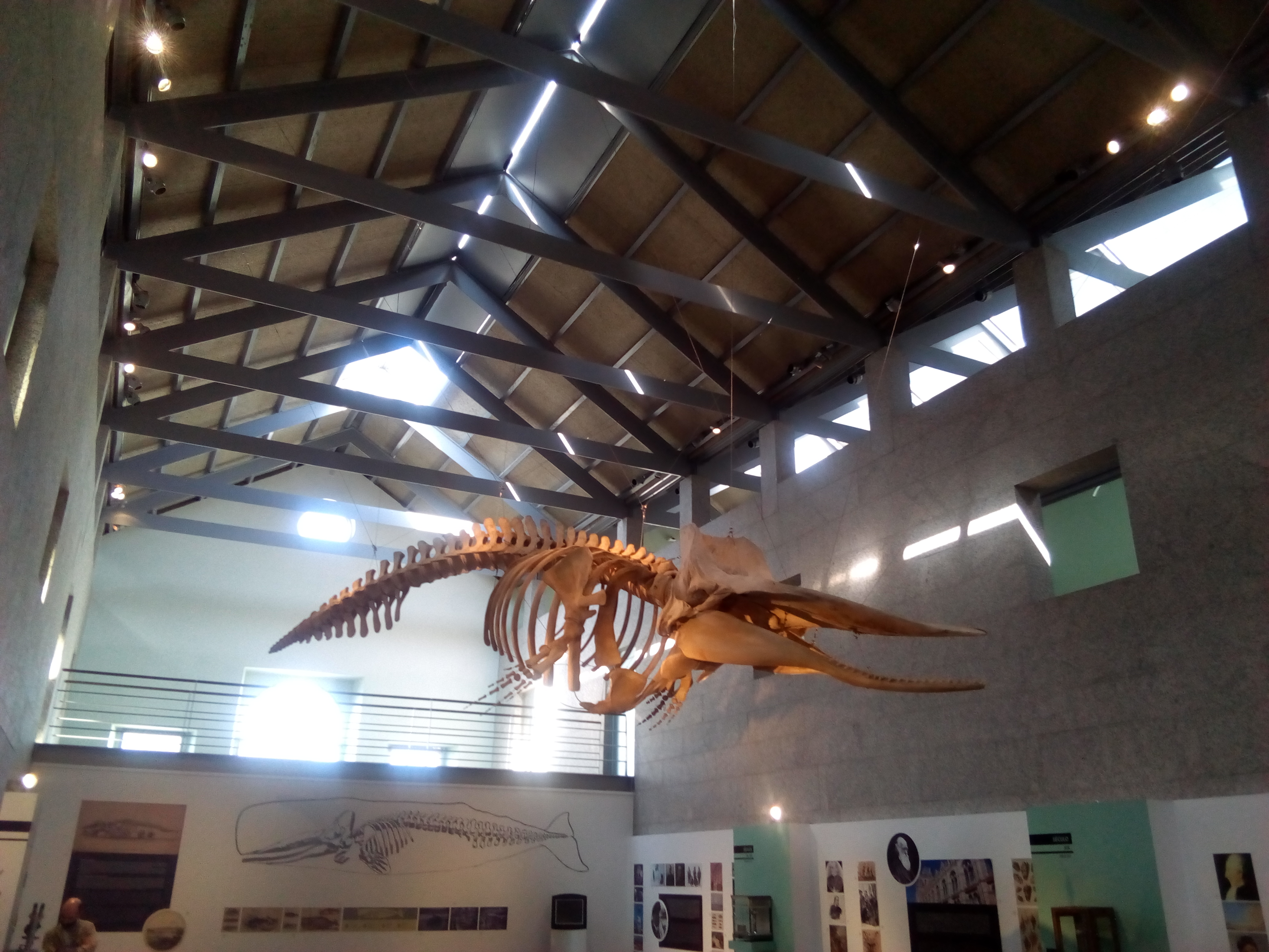 cachalote museo mar